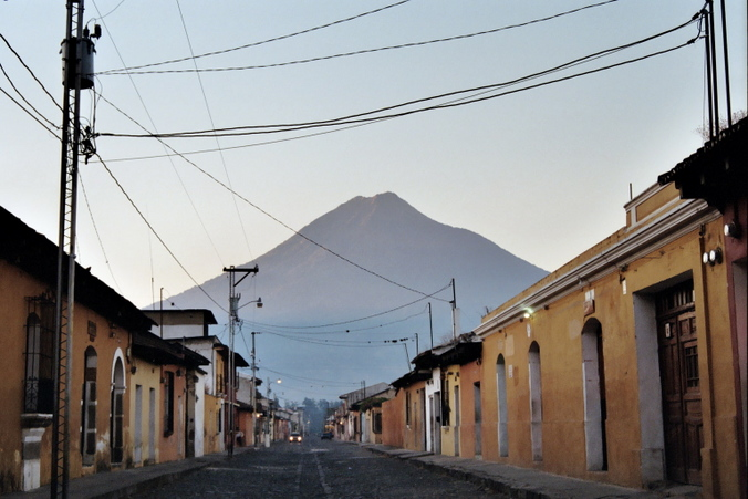 I took this picture in November 2006 in Antigua, Guatemala. This is Volcan Agua.